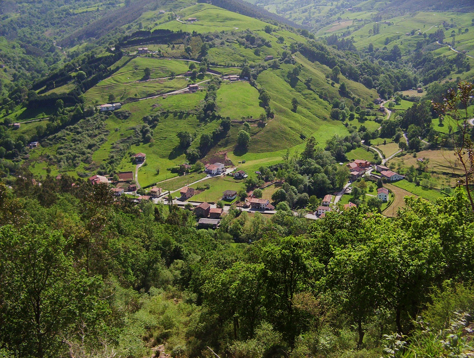 View of Rubalcaba (Cantabria, Spain)